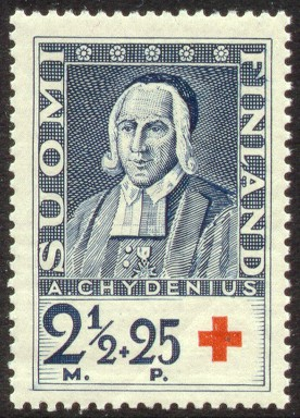 Postage stamp depicting the Finnish statesman and priest Antti Chydenius